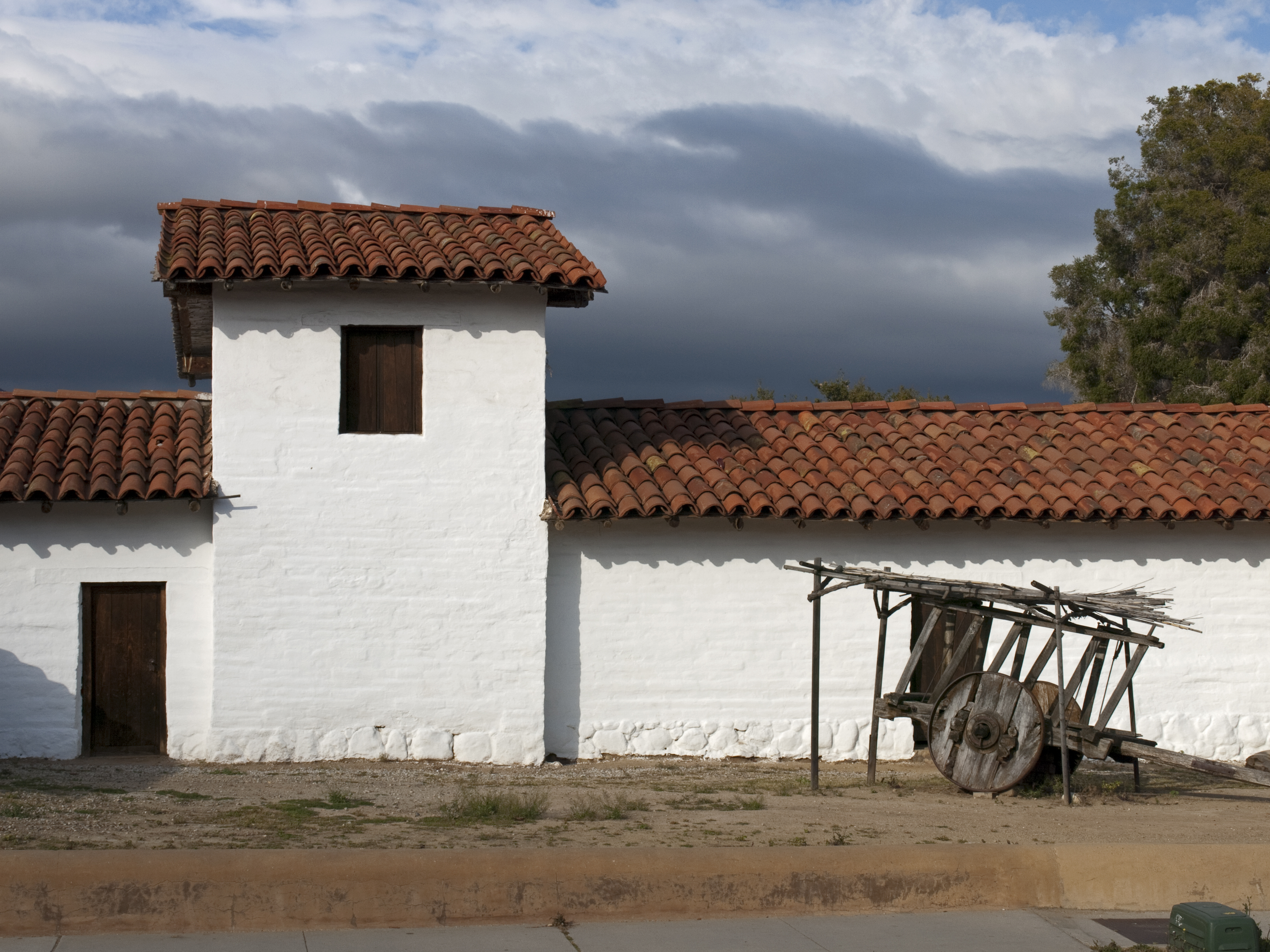 Wall of El Presidio, Santa Barbara